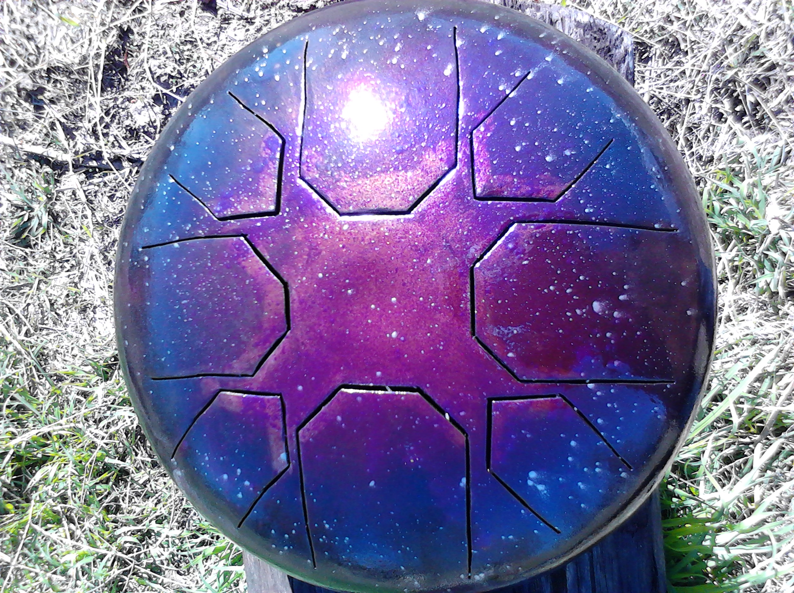 The first Original Lotus Drum (Zio #1)